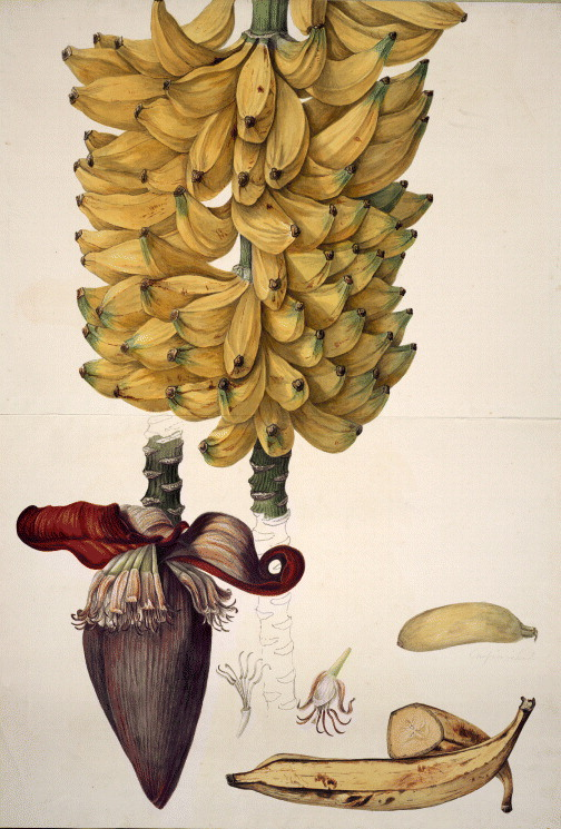 Folding watercolor (depicting the various forms of a banana) found in Dorothea E. Smith's "Fruits of the Lima Market"